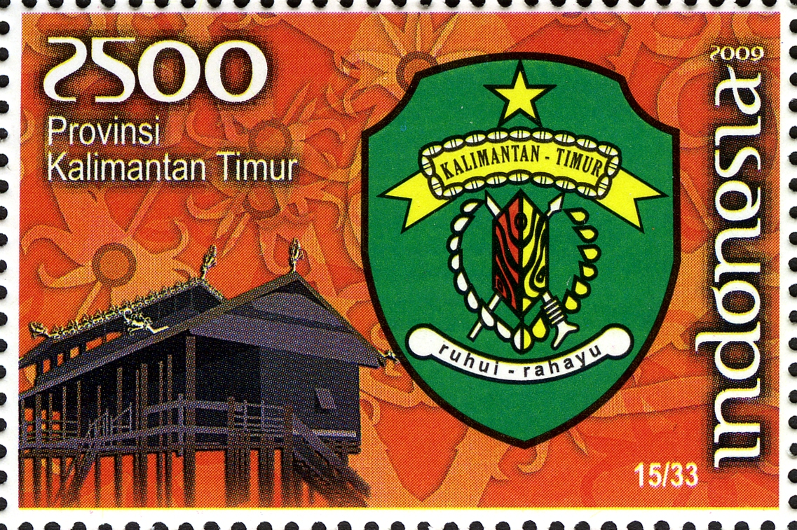 Stamps of Indonesia